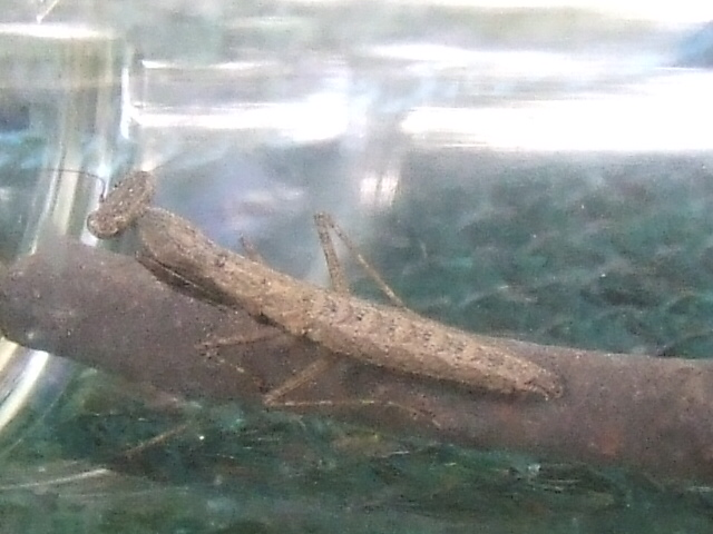 Bolbe spp. fully grown female 1cm long and 2 mm wide